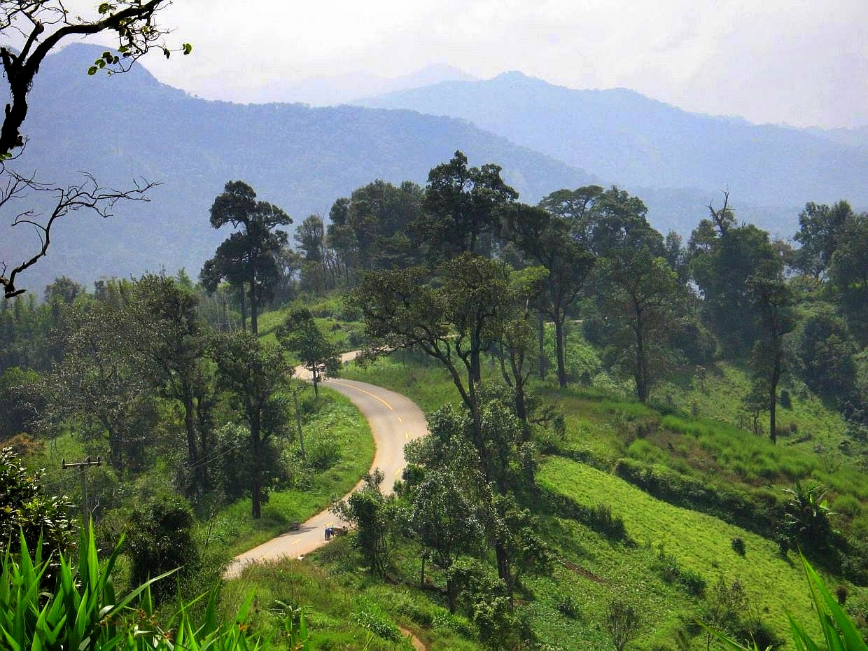 Road 1099 going down towards Mae Thun Noi where it ends in the jungle. The people living in this area are predominantly Lahu and Karen.